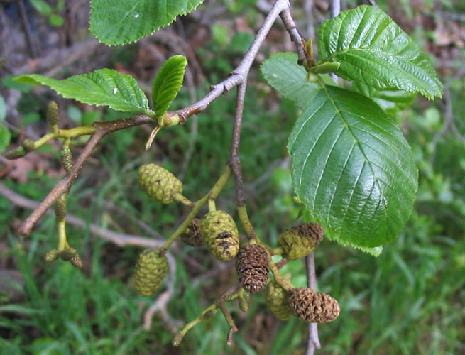 Alnus rhombifolia — White alder (tree foliage). Growing in riparian woodlands of the Santa Monica Mountains, Southern California. Protected in the Santa Monica Mountains National Recreation Area.